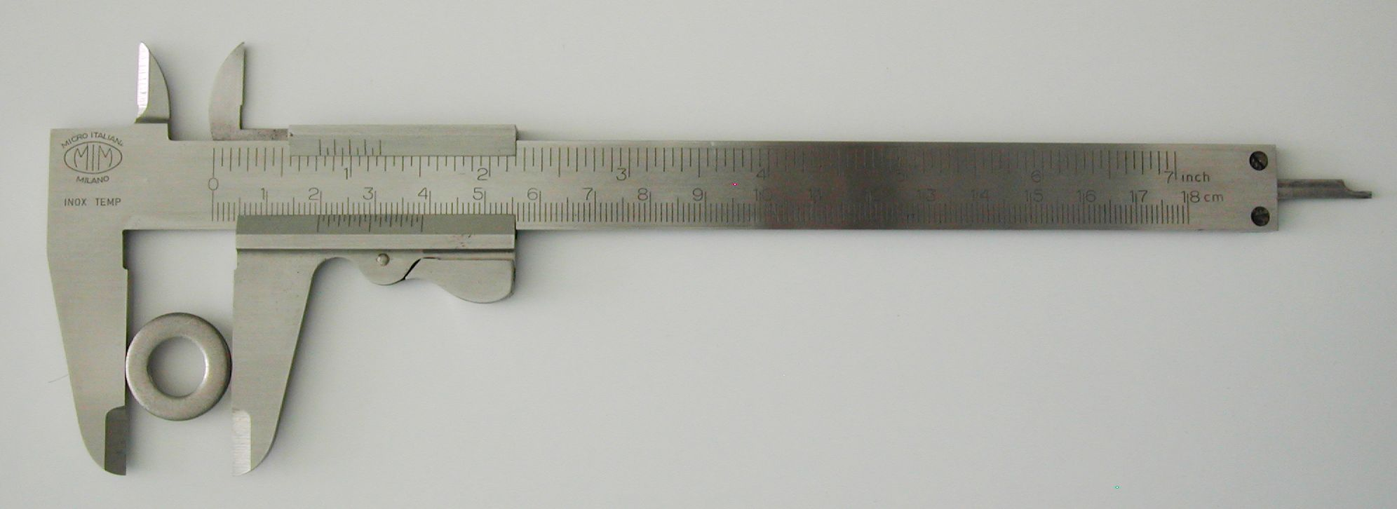 Vernier caliper mesuring an inox washer